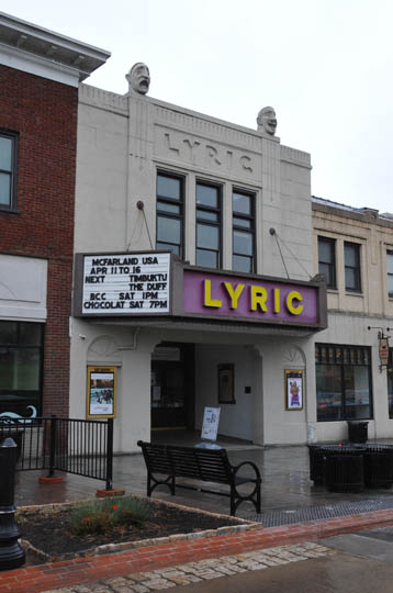 LYRIC THEATER, 1922, IN ART DECO STYLE